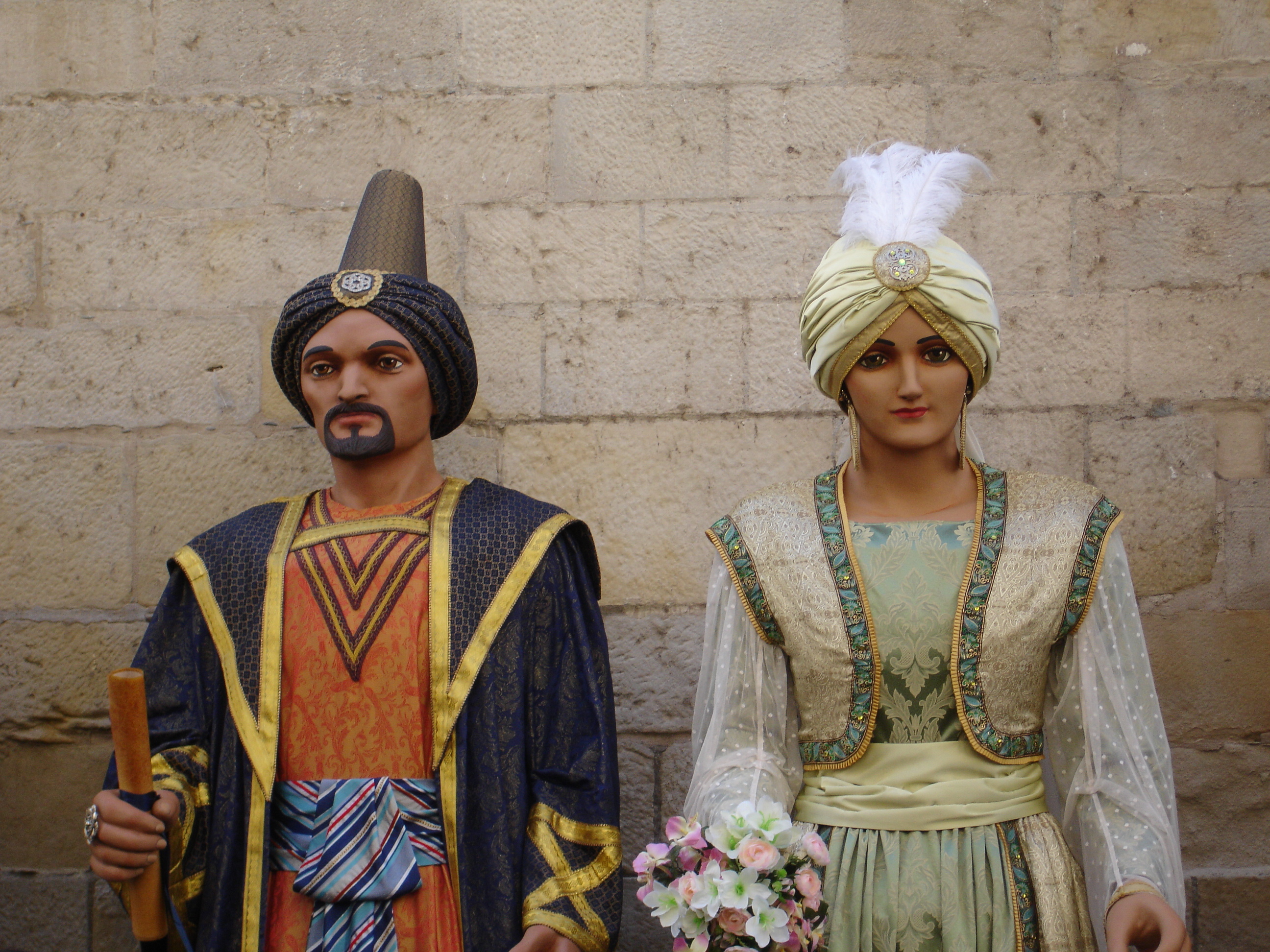 Giant figures of Moors Kings, Lleida (Spain)